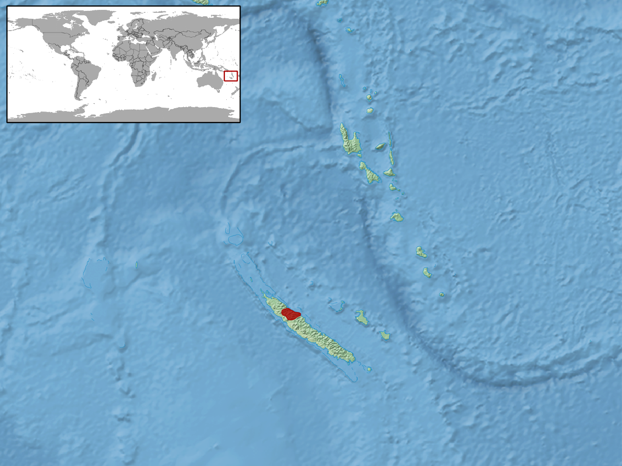 geographic distribution of Caledoniscincus chazeaui